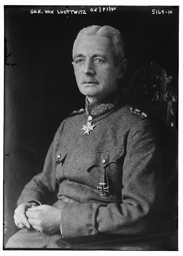 Walther von Lüttwitz circa 1918